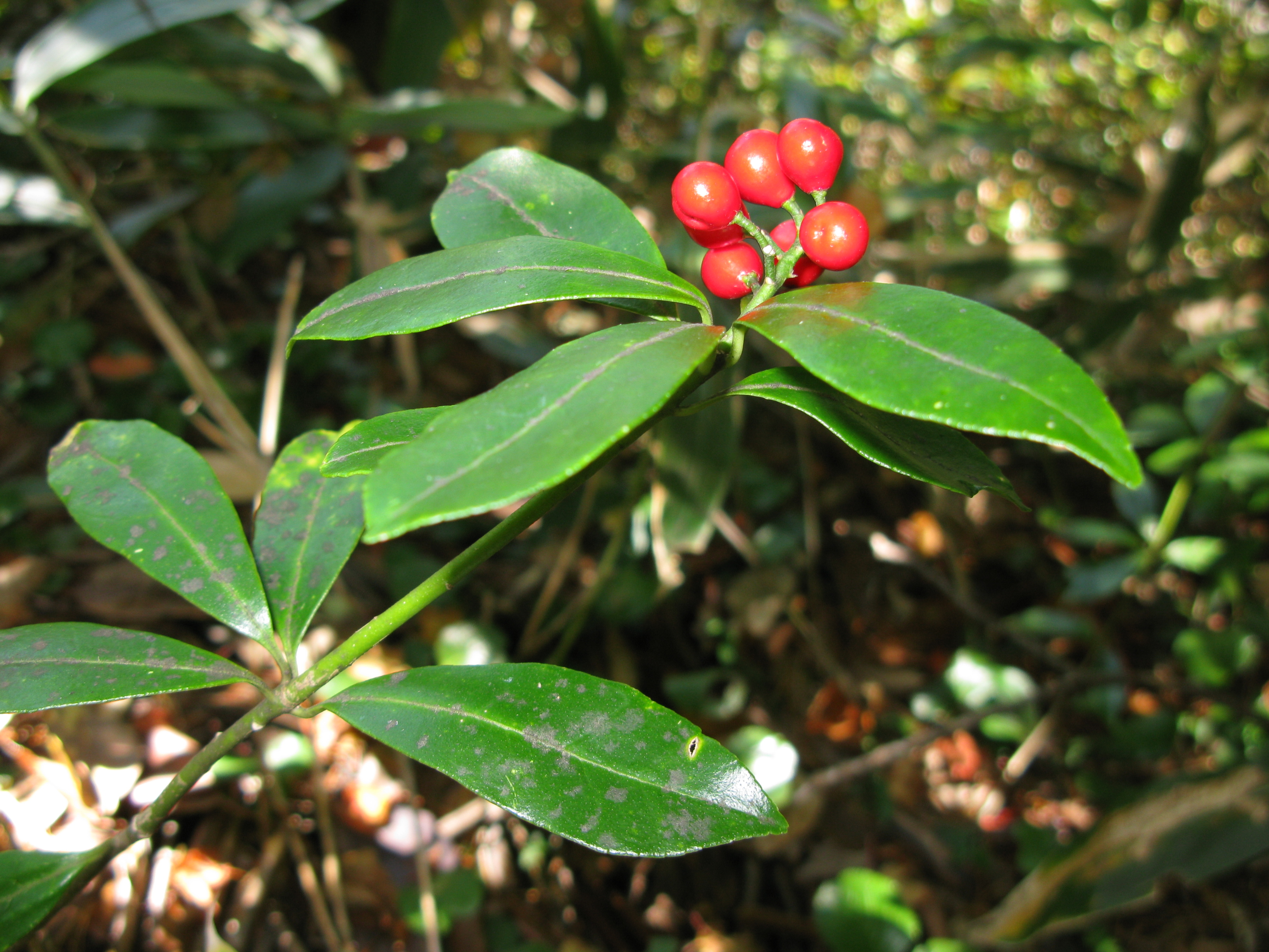 Skimmia japonica var. intermedia f. repens, Aizu area, Fukushima pref., Japan